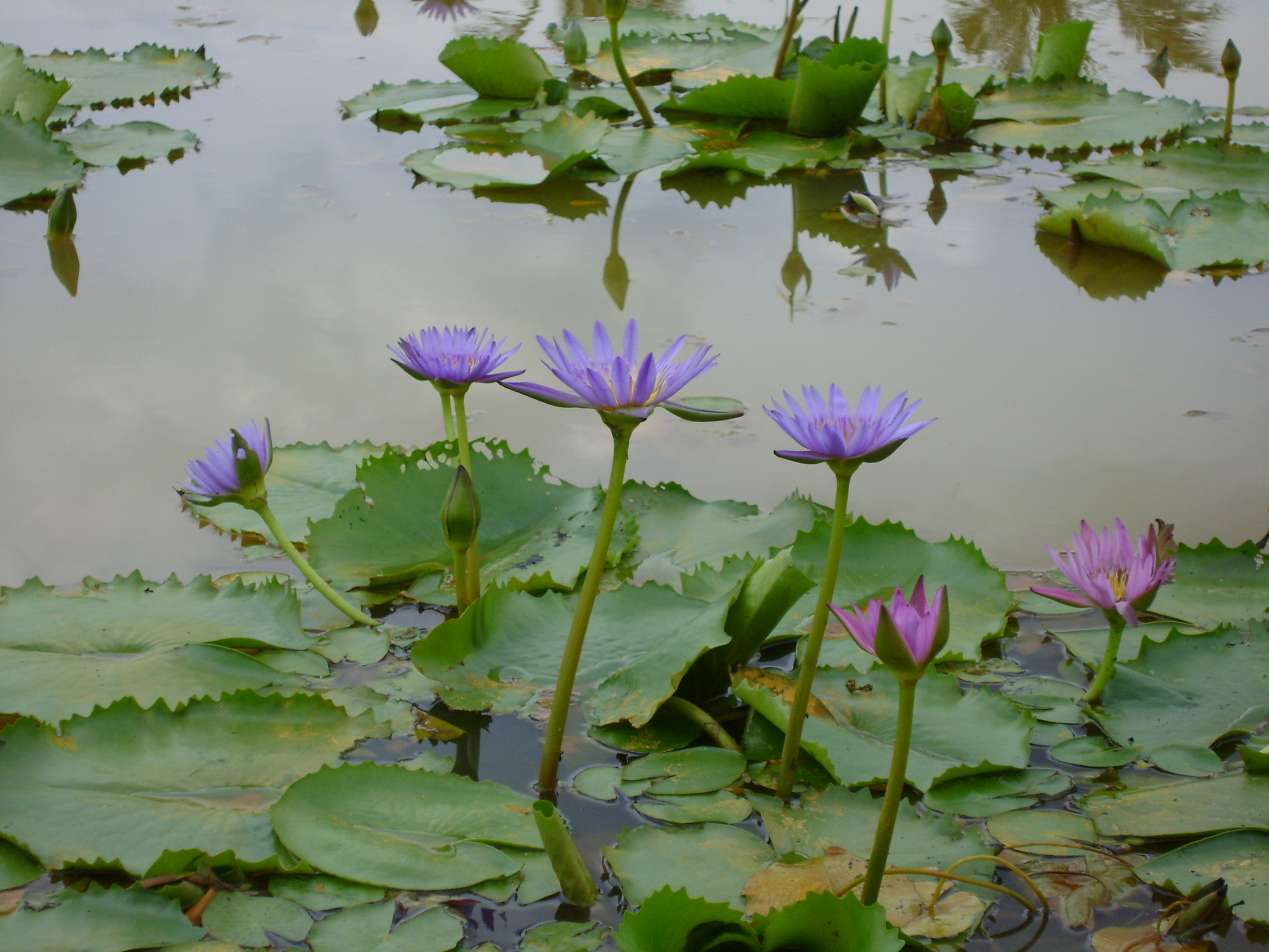 A pond of water lily. This photo is shot in late noon, so it look so dark.